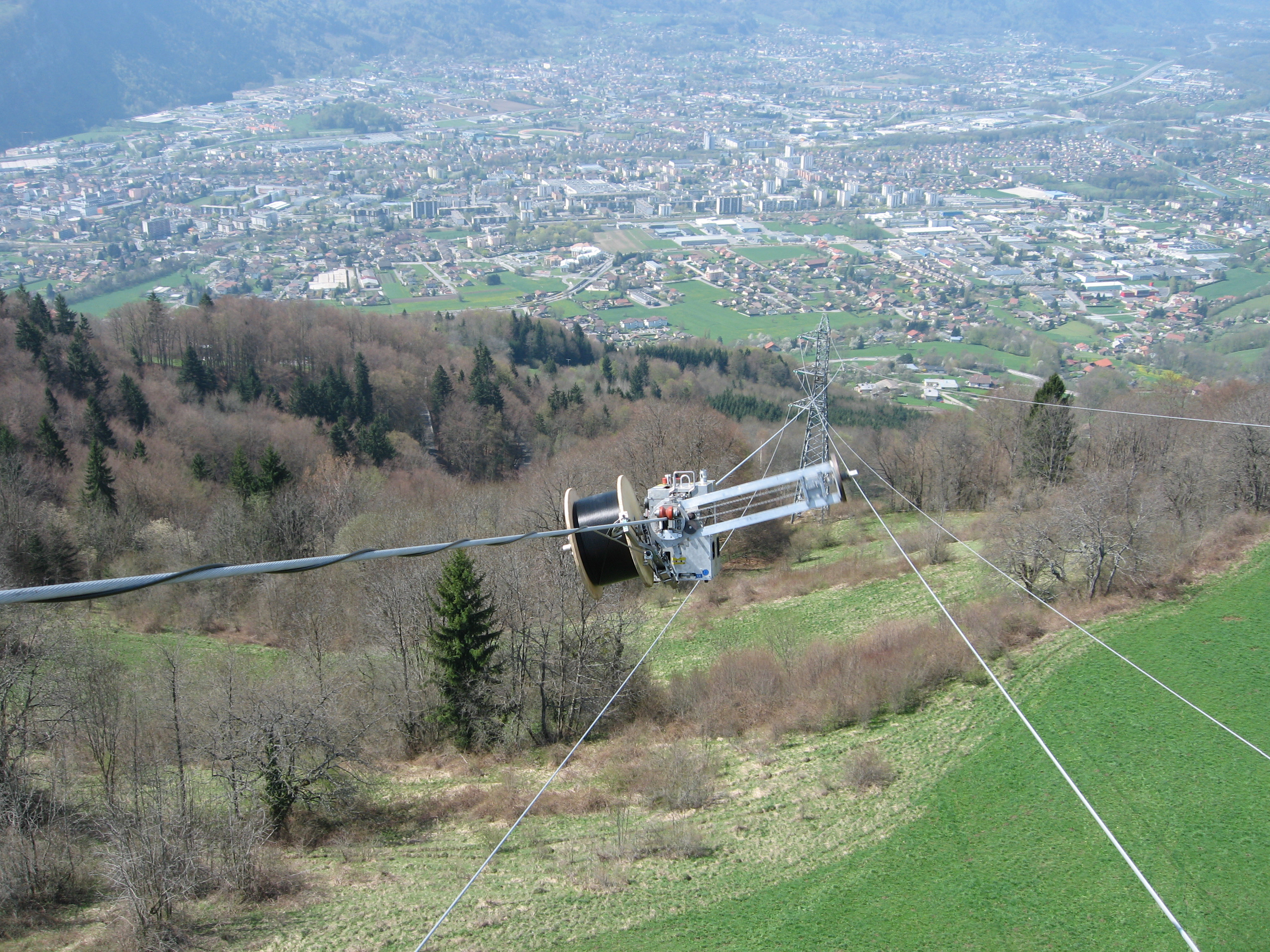 SkyWrap fibre optic cable installation on the ground wire of an overhead power line in 2013.